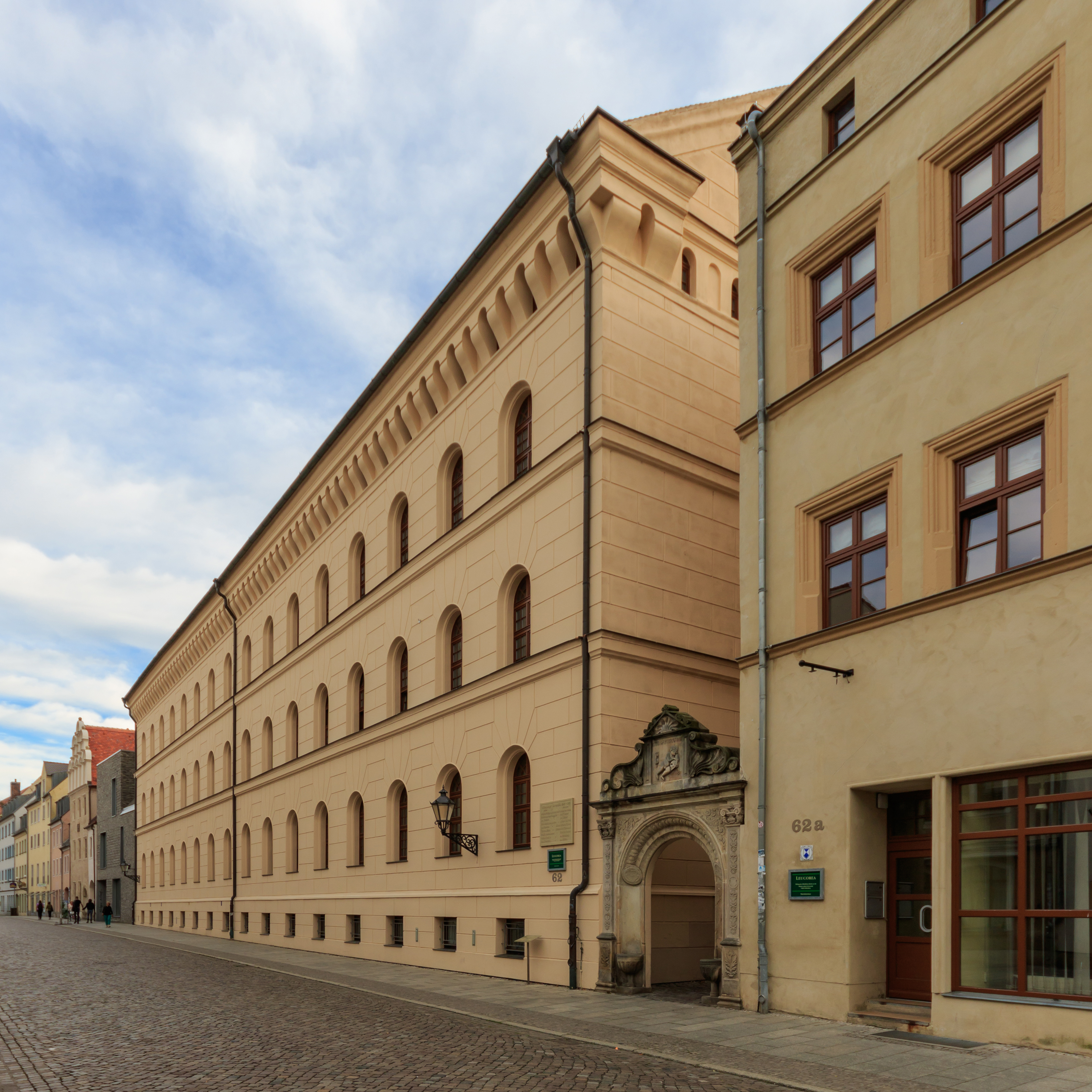 Leucorea in Wittenberg, Saxony-Anhalt, Germany